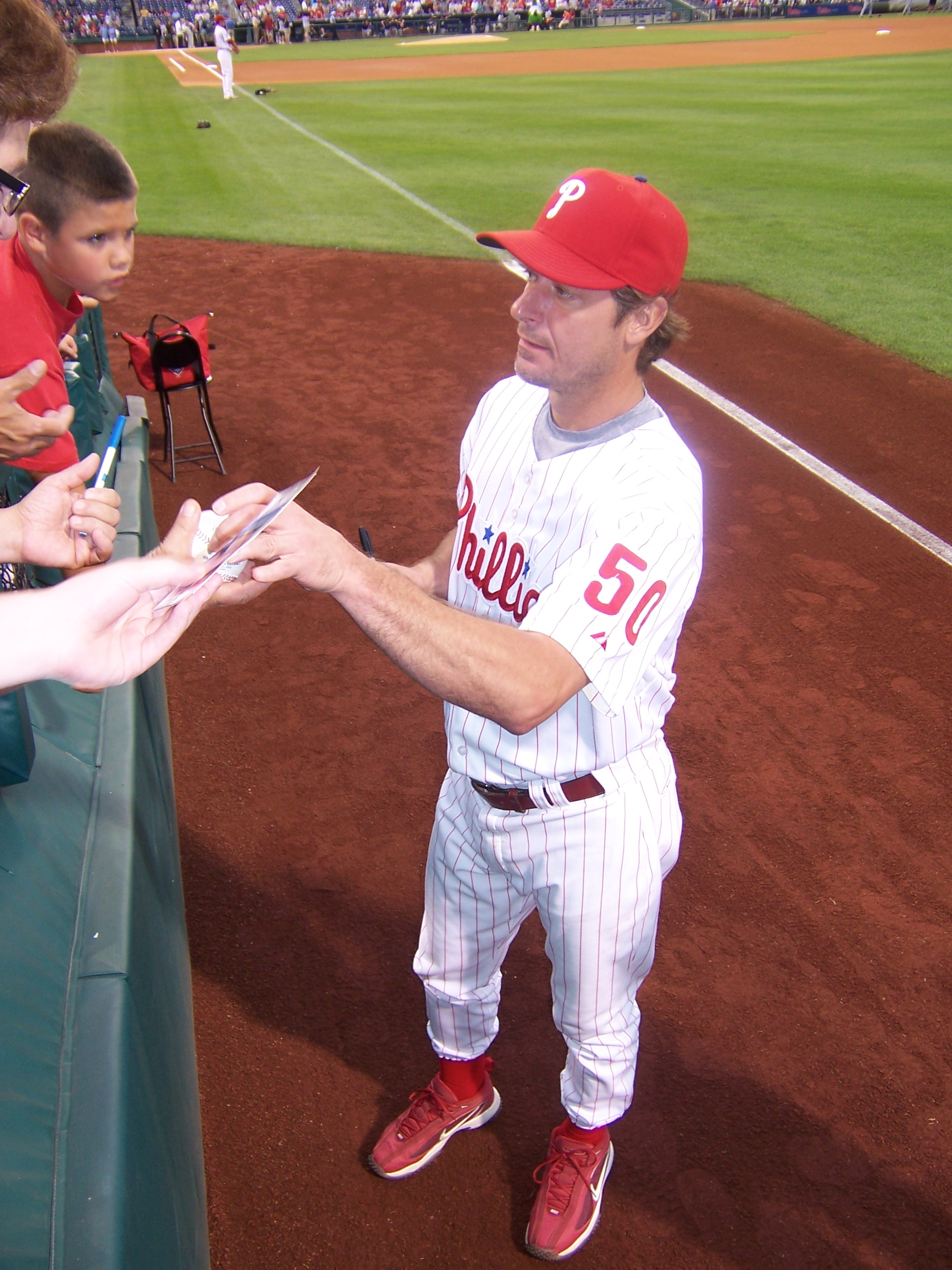 Jamie Moyer in Citizens Bank Park in July of 2007 03:29, 19 April 2008 . . ChicagoMayne . . 1,932×2,576 (945 KB)